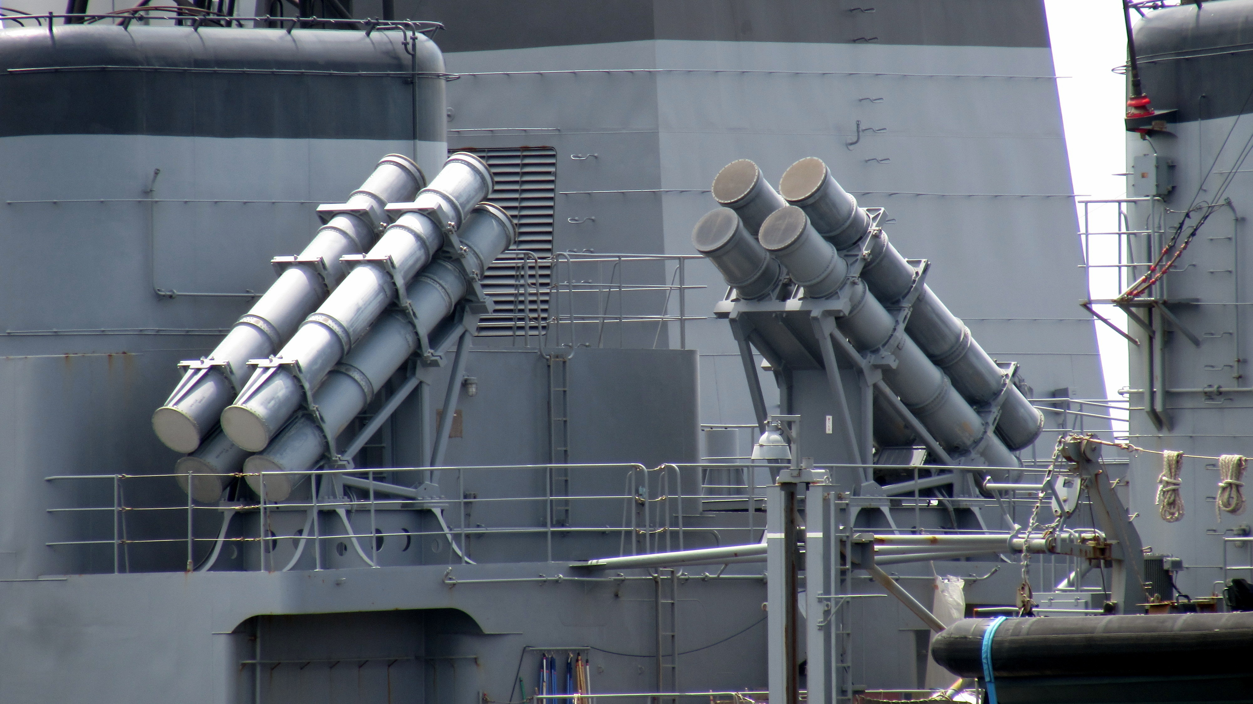 The Mk-141 Launchers for the RGM-84 Harpoon Missiles of the JS Yugiri (DD-153), an Asagiri class Destroyer of the Japanese Maritime Self Defense Force (JMSDF) . Photo taken at the Manila South Harbor.